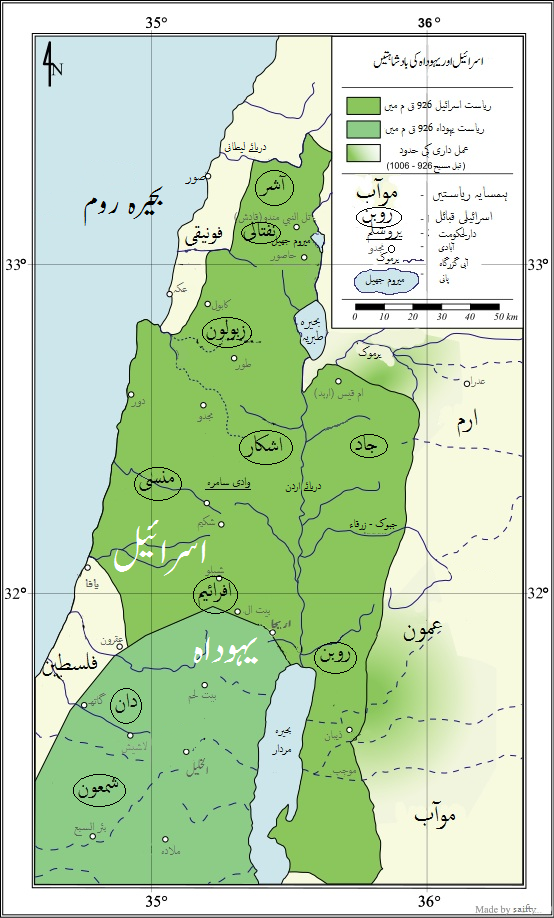 اسرائیل یہوداہ ریاستیں اور قبائل